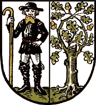 Coat of Arms of the former town Nowawes